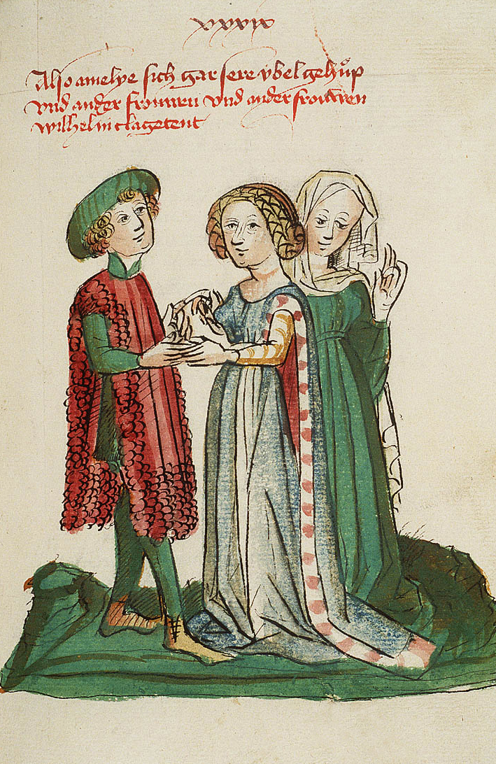 Wilhelm von Orlens Place of origin, date: Hagenau (Alsace), Workshop of Diebold Lauber (illuminator); c. 1450-1470 Material: Paper, ff. 383, 285x212 (185x100) mm, 24 lines, littera cursiva. German. Binding: 18th-century brown leather, gilt, with coat of arms of Stadtholder William V Decoration: 39 coloured drawings, unframed (245/145x200x160 mm); 1 decorative opening page (f. 11r) Provenance: Catharina of Austria (1420-1493); by inheritance to her daughter Zimborg of Baden (1450-1501), wife of Count Engelbert II of Nassau (d. 1504); by legacy to the Counts of Nassau and Princes of Orange, the later Stadholders, at The Hague; transfered in 1798